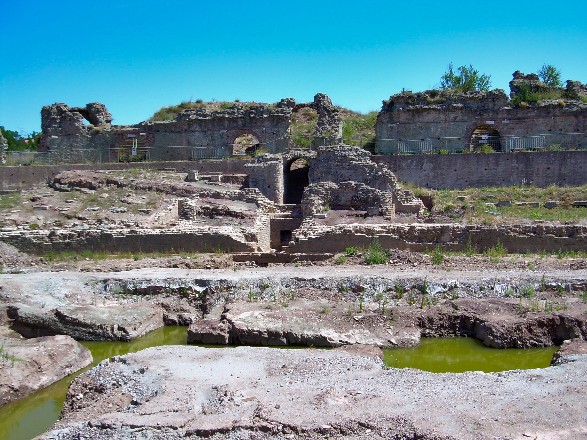 Roman amphitheatre of Fréjus or Forum Julii, Var, France